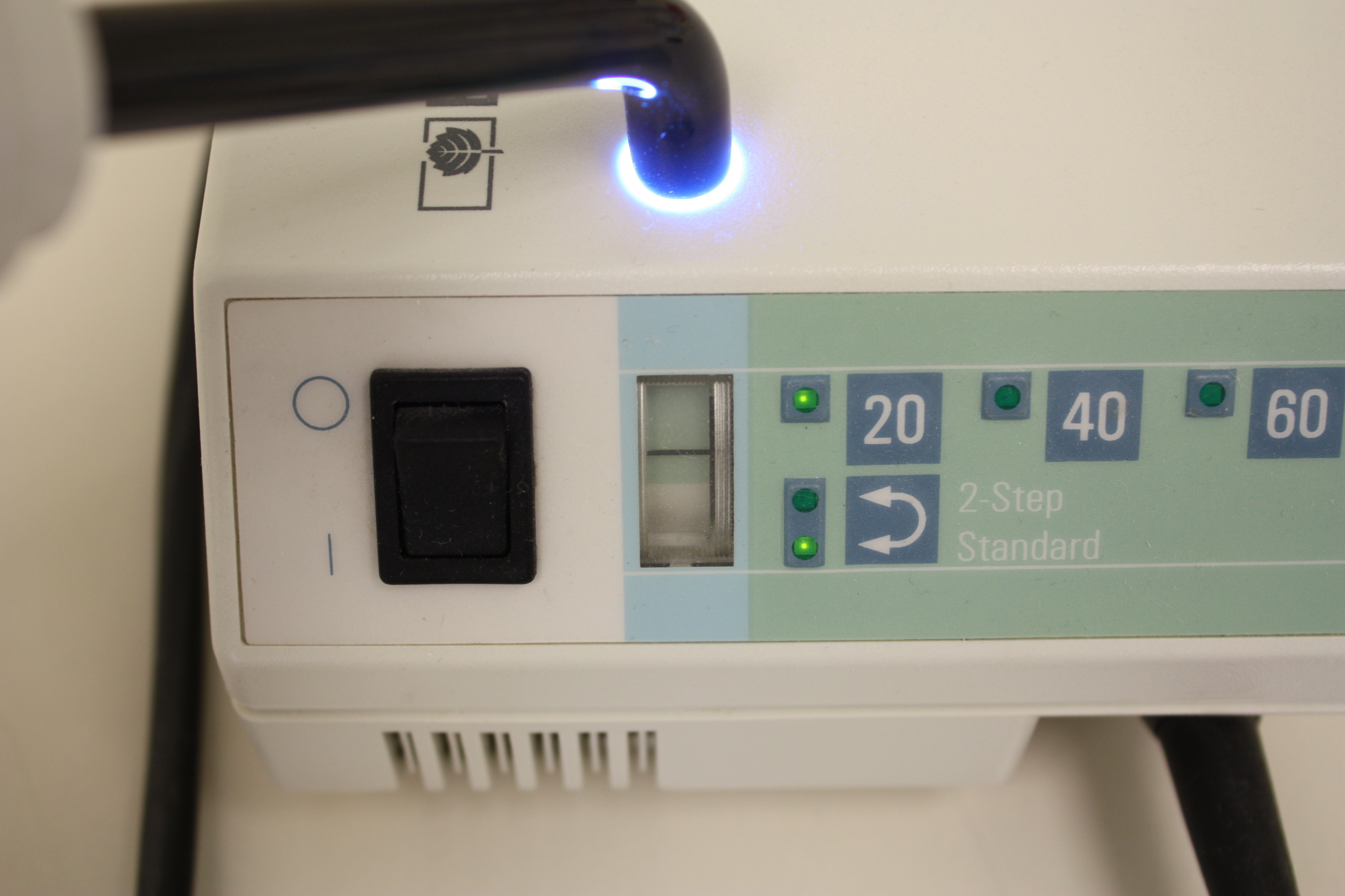 Polymerisationslampe für Komposite (Zahnmedizin) 2009